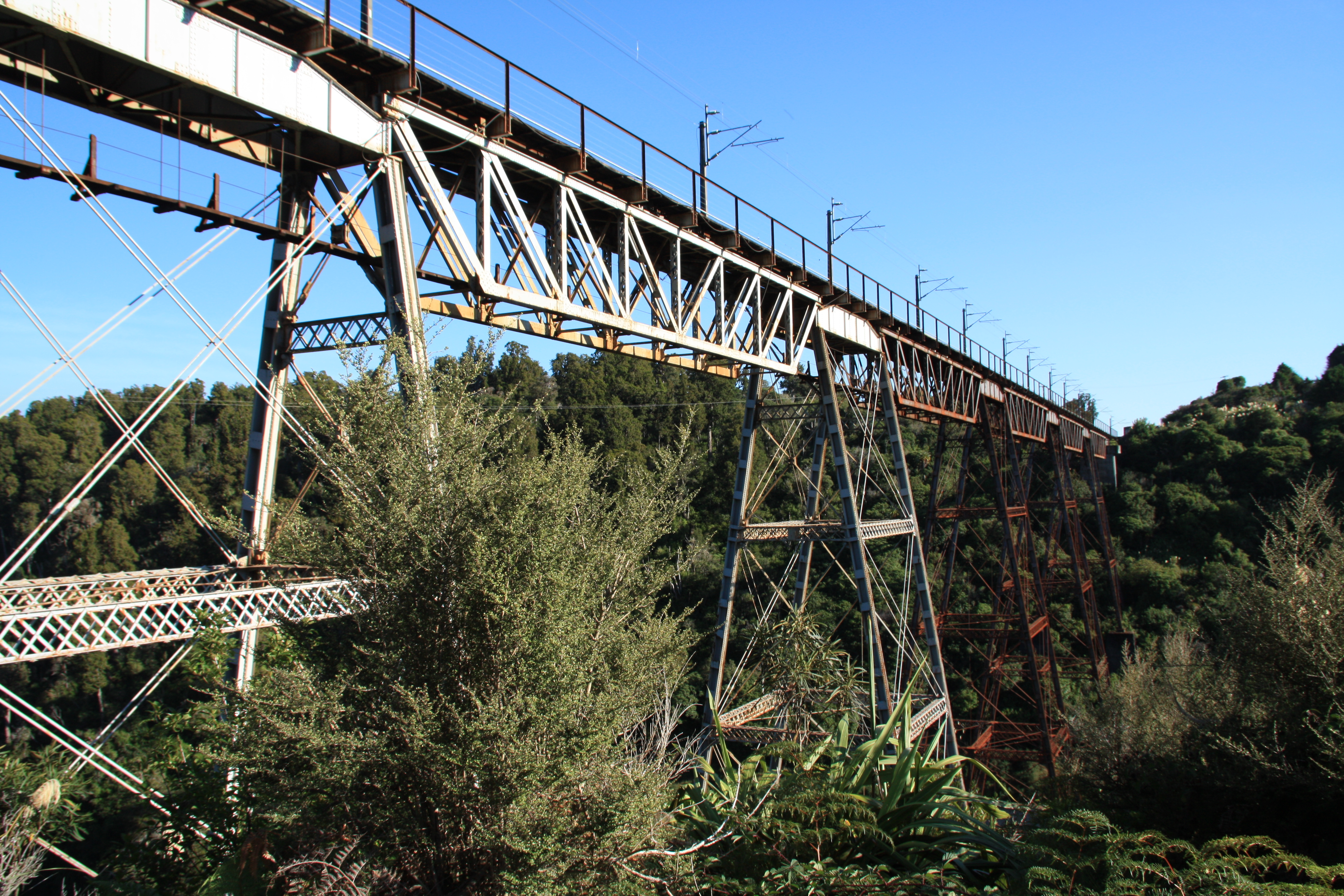 Makatote Viaduct